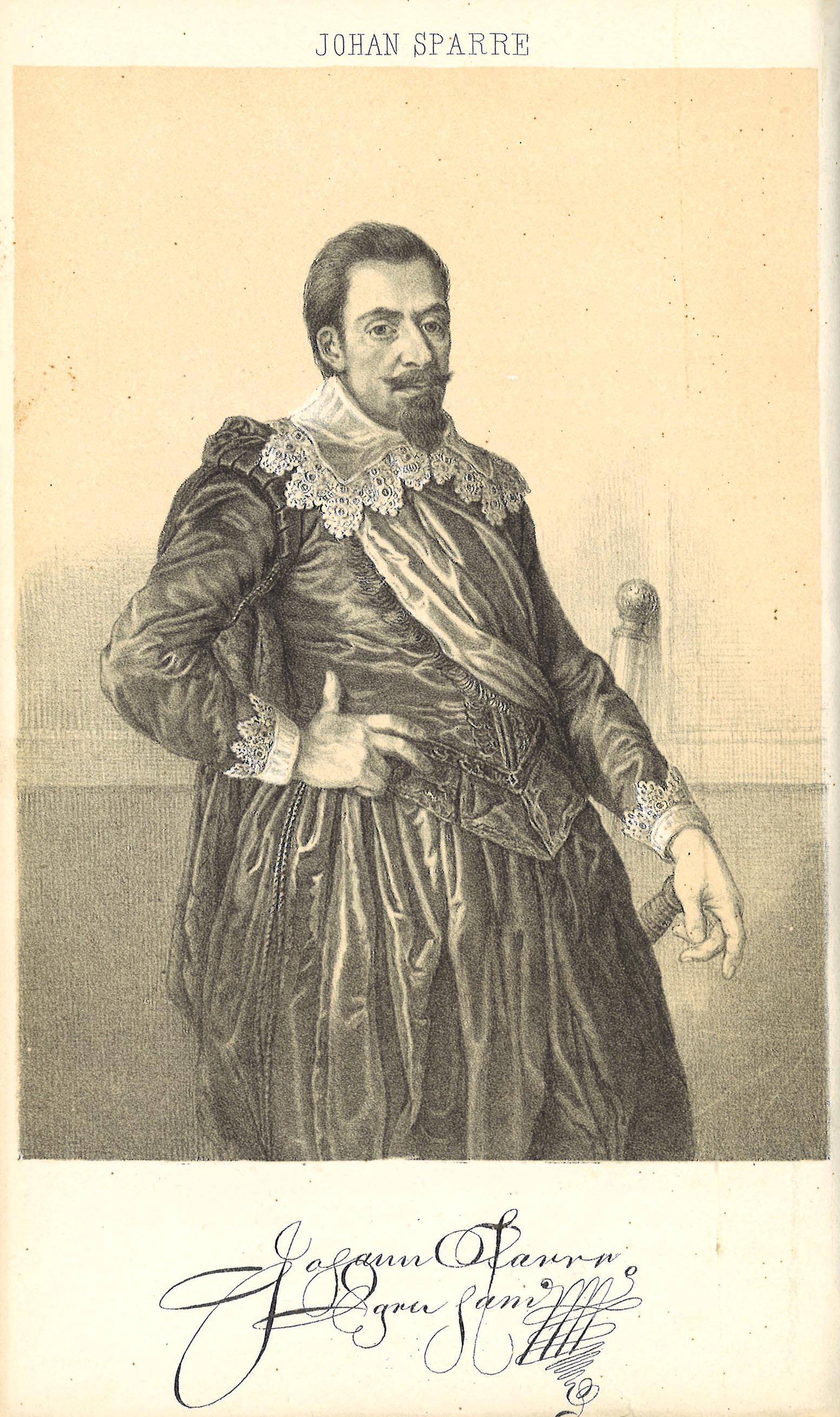 Johan Eriksson Sparre (1587-1632), Swedish senator and "lantmarskalk" (chairman of the estate of nobility).